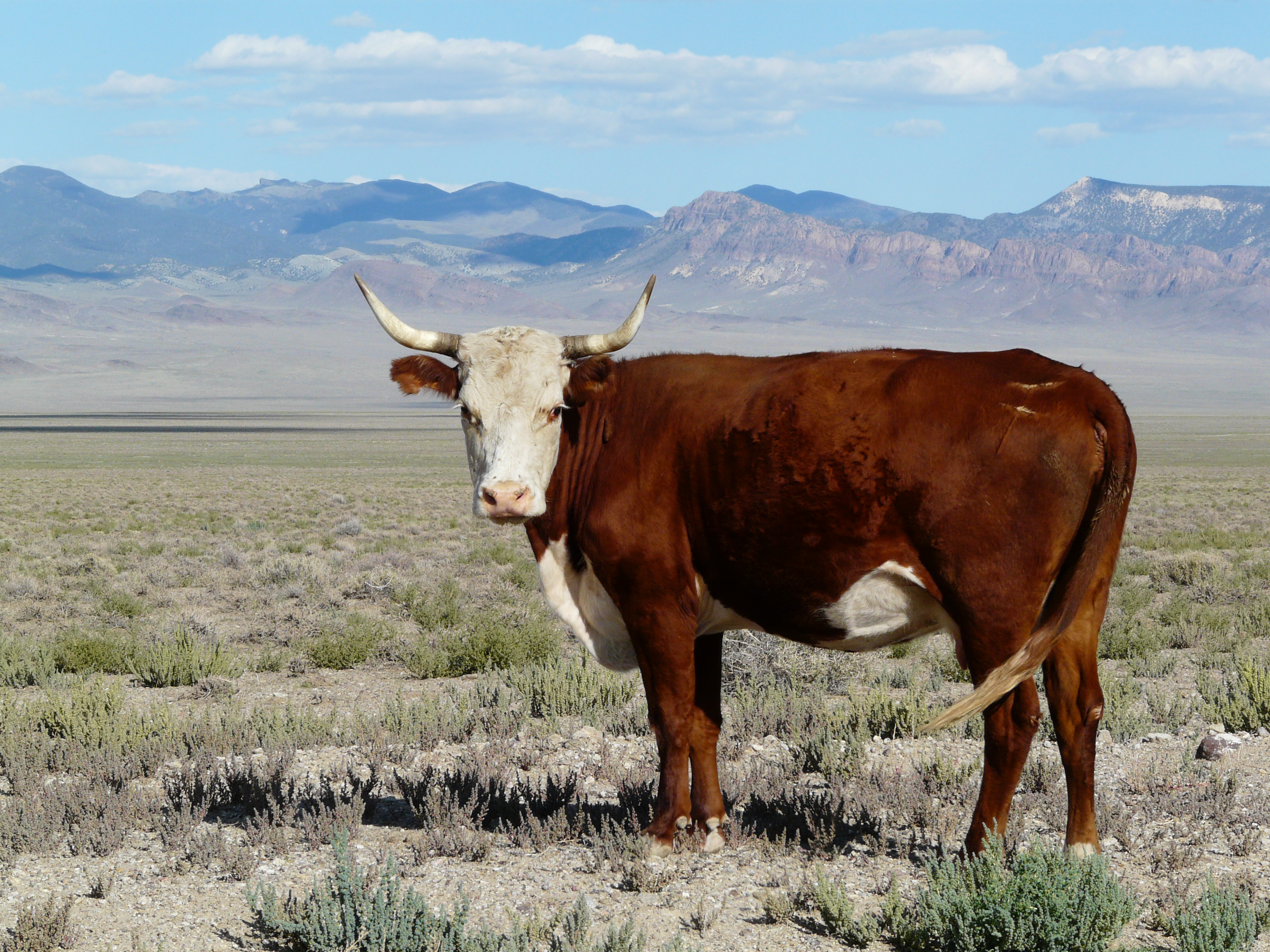 A horned Hereford cow in Nevada.